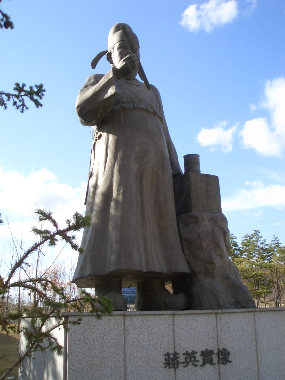 Statue of Jang Youngsil outside Cheonan-Asan Station, Asan, Korea